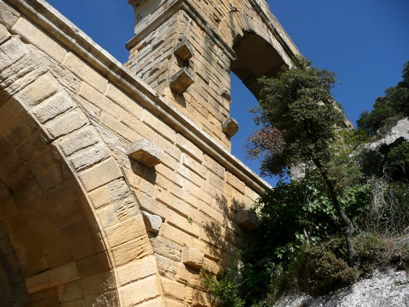 Detail of the Roman stonework on the Pont du Gard